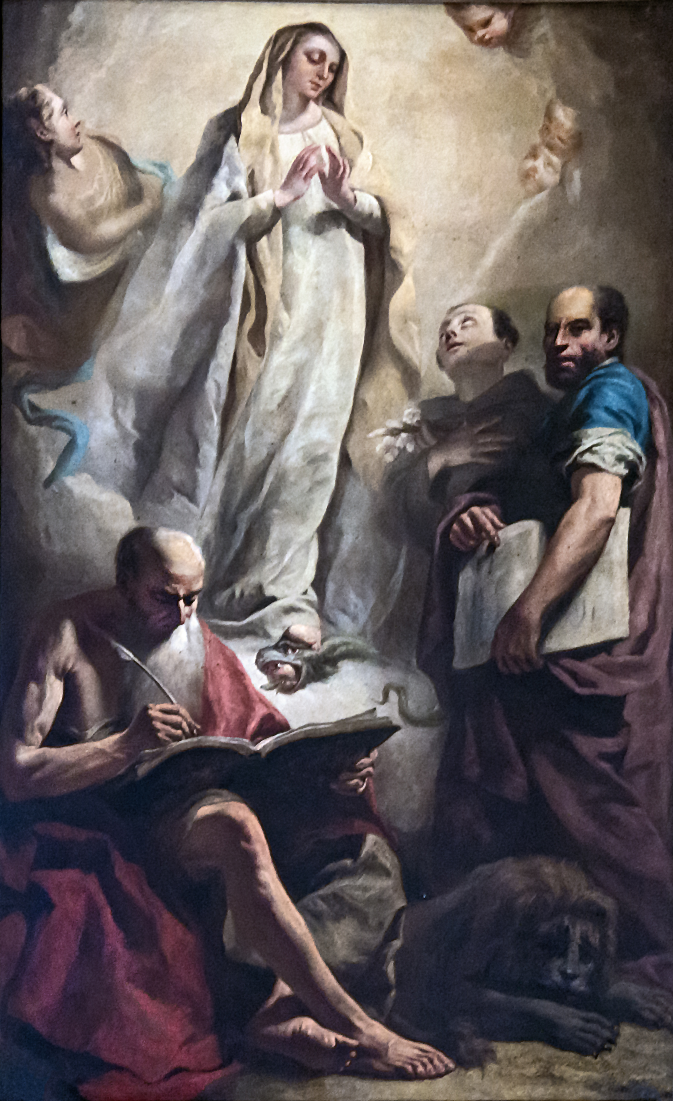 Sacritsty of San Francesco della Vigna (Venice). Immaculate Conception with Saints (ca 1760) by Giuseppe Angeli.